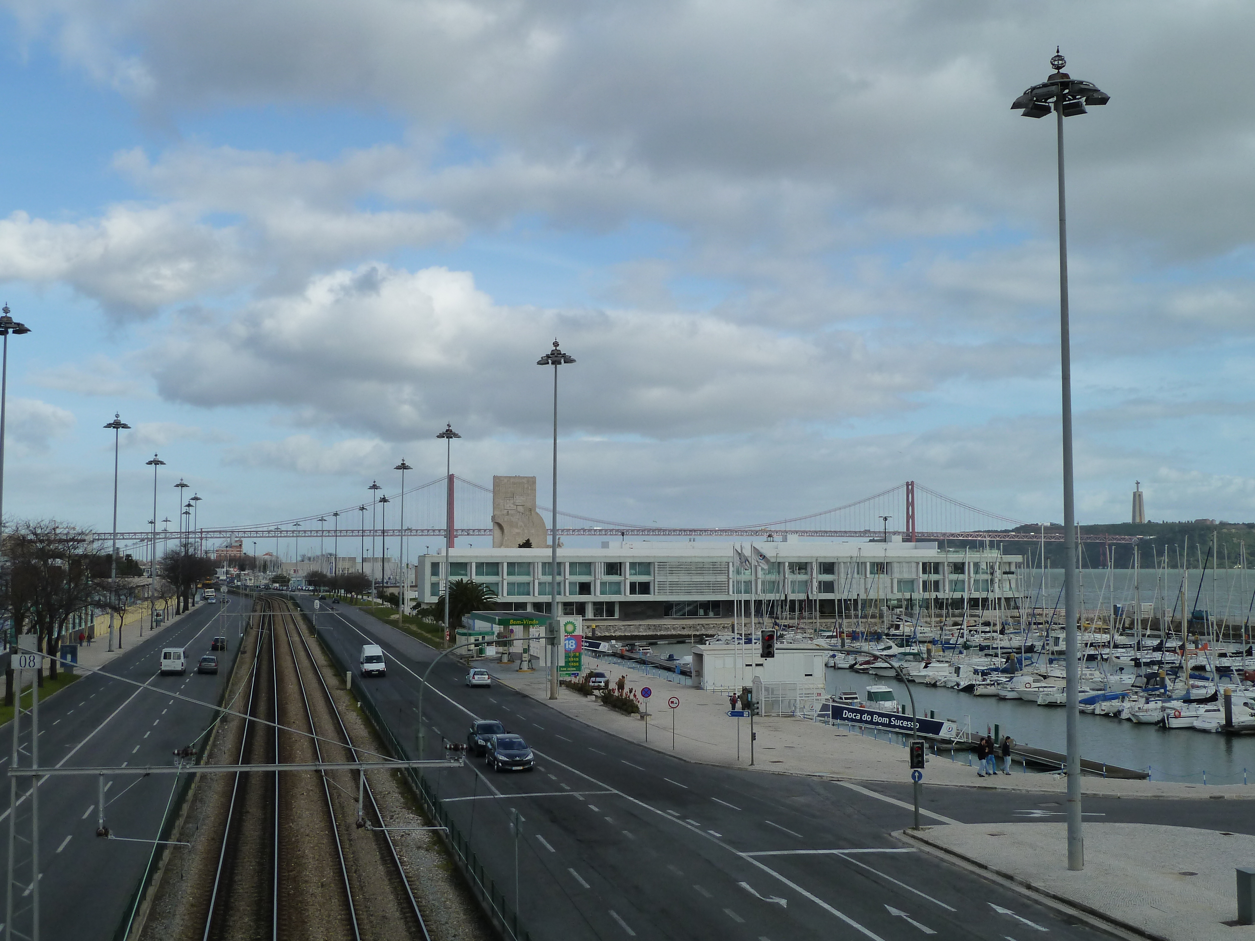 Tagus River in Belem